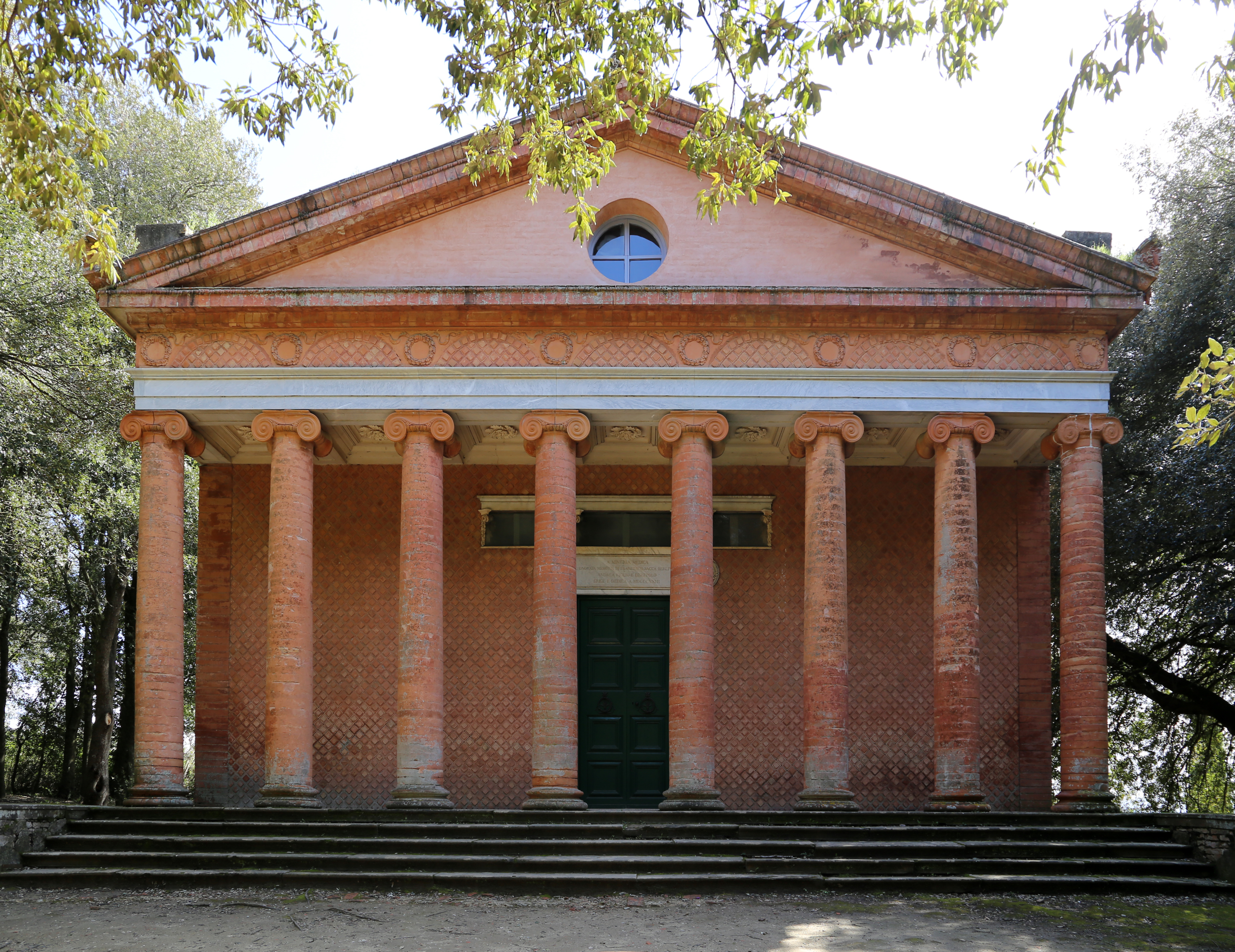 Tempio a Minerva Medica (Montefoscoli)